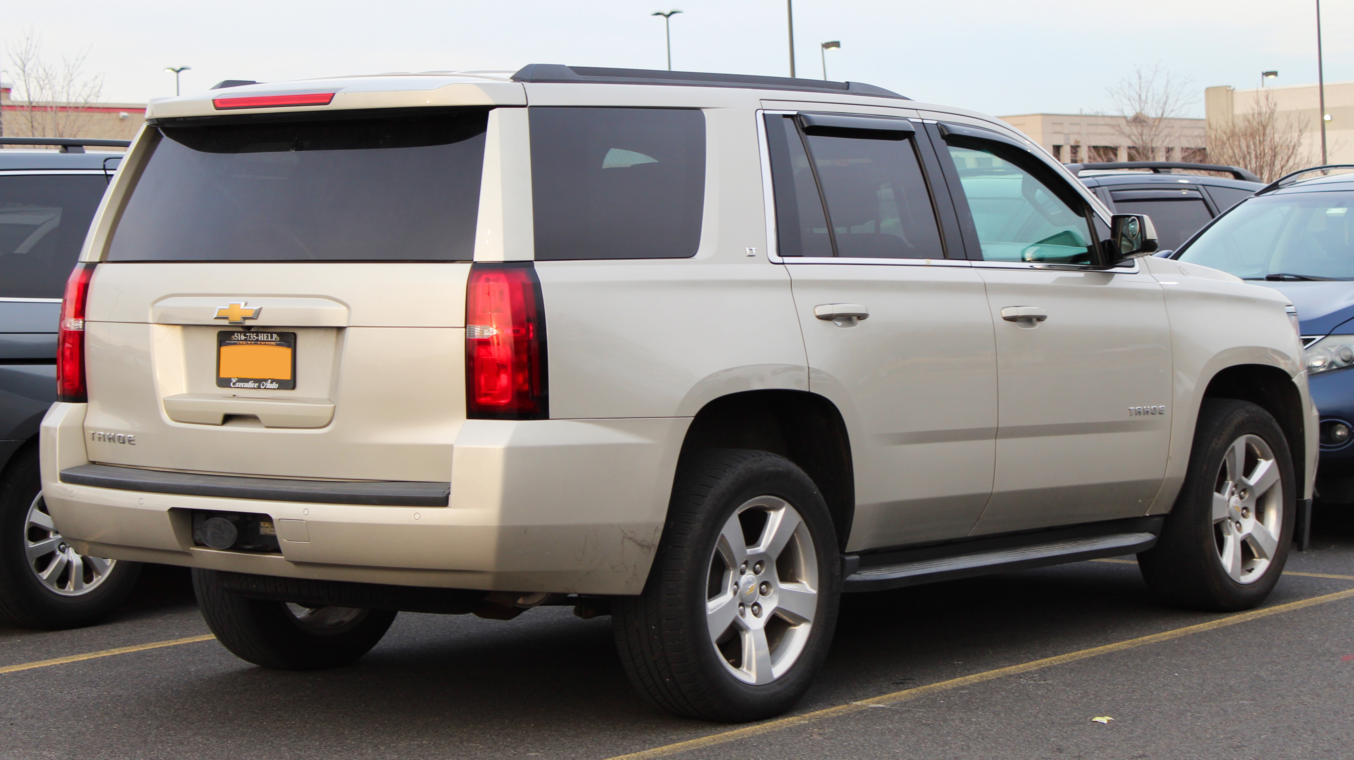 A 2015 Chevrolet Tahoe LT 5.3L photographed in College Point, Queens, New York, USA